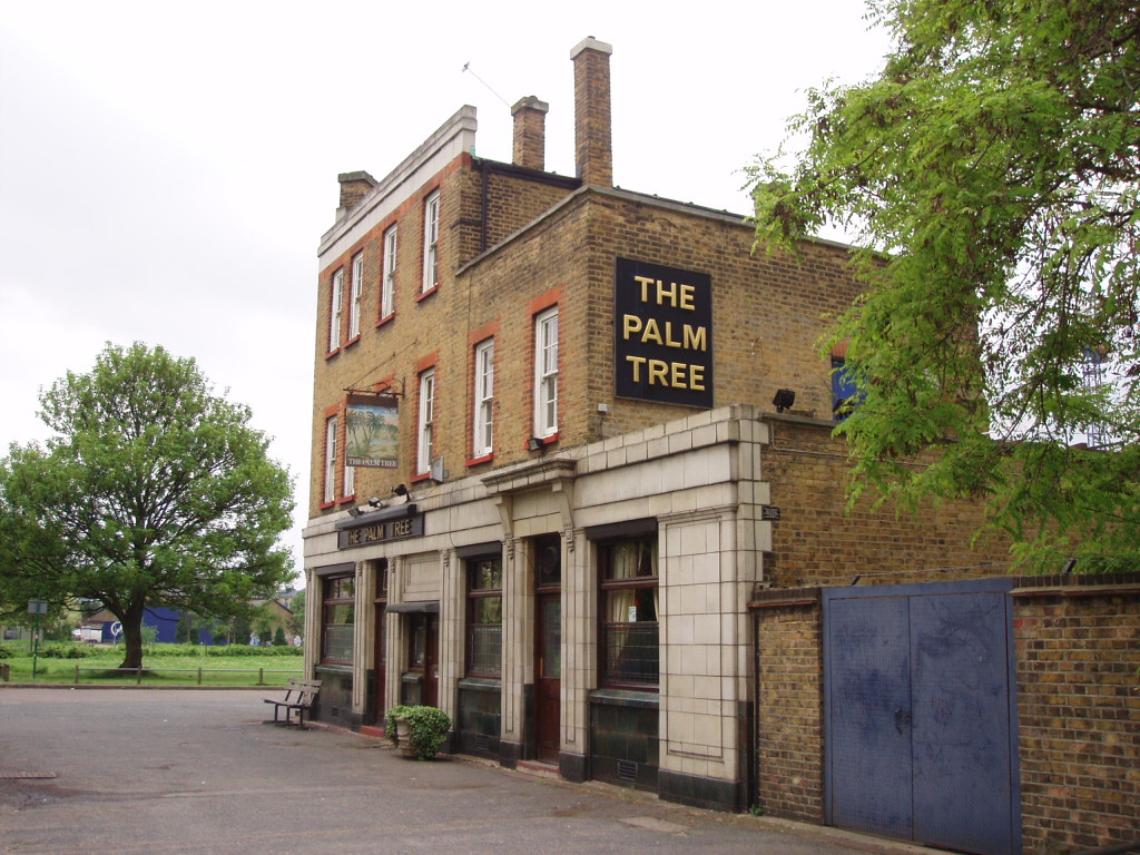 It's been voted one of the best pubs in London, a traditional East End boozer. Address: 24-26 Haverfield Road (formerly Palm Street). Owner: Truman Hanbury Buxton (former).